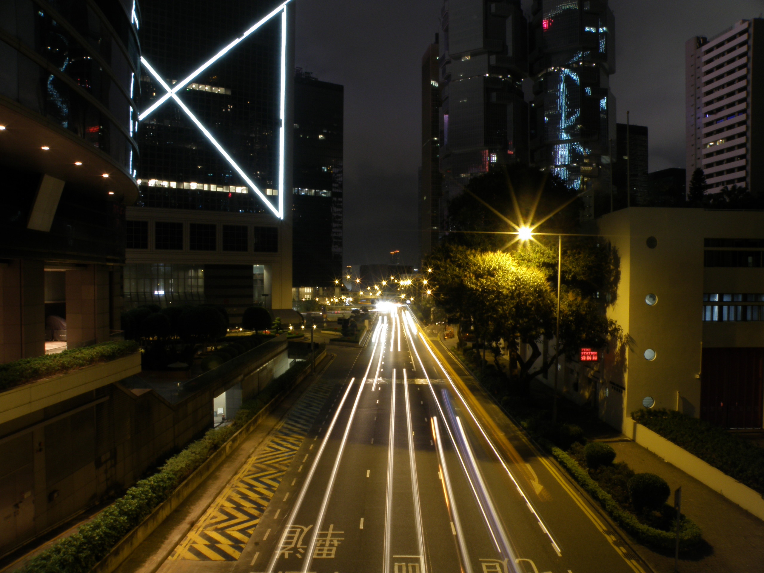 Cotton Tree Drive in Admiralty, Hong Kong.